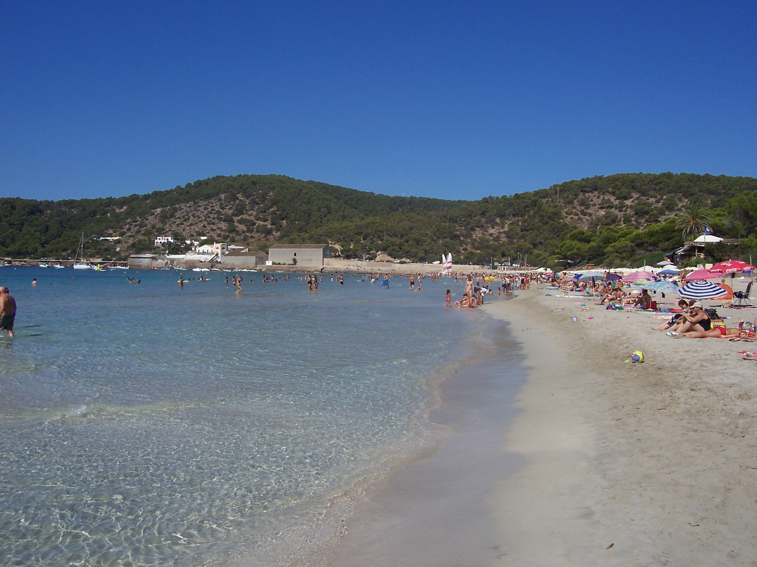 ibiza playa de ses salines